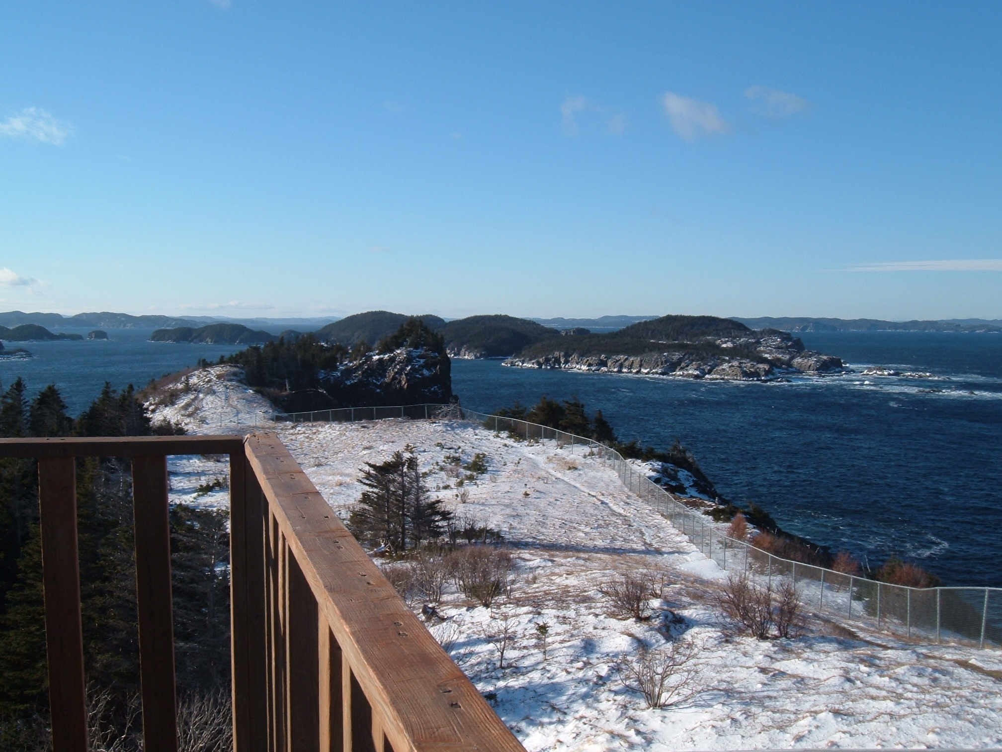 A picture of the Atlantic Ocean as seen from the top of a lookout point located in Leading Tickles Newfoundland (A province located in Canada)